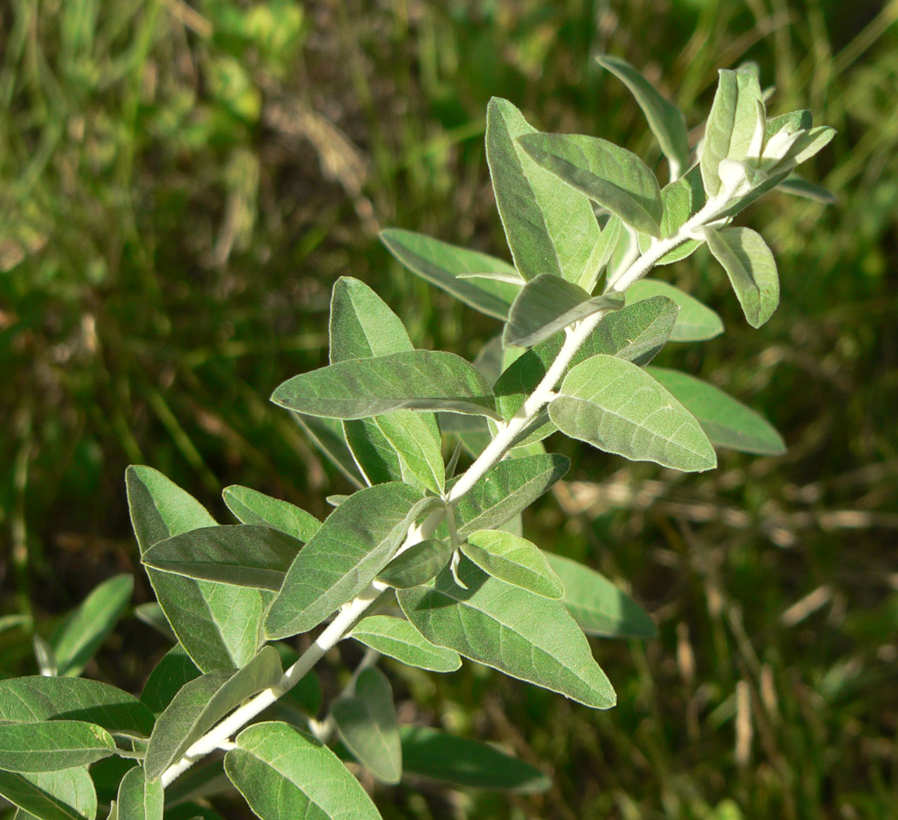 Elaeagnus angustifolia at Red Spring, Calico Basin, Spring Mountains, southern Nevada (elev. about 1100 m)